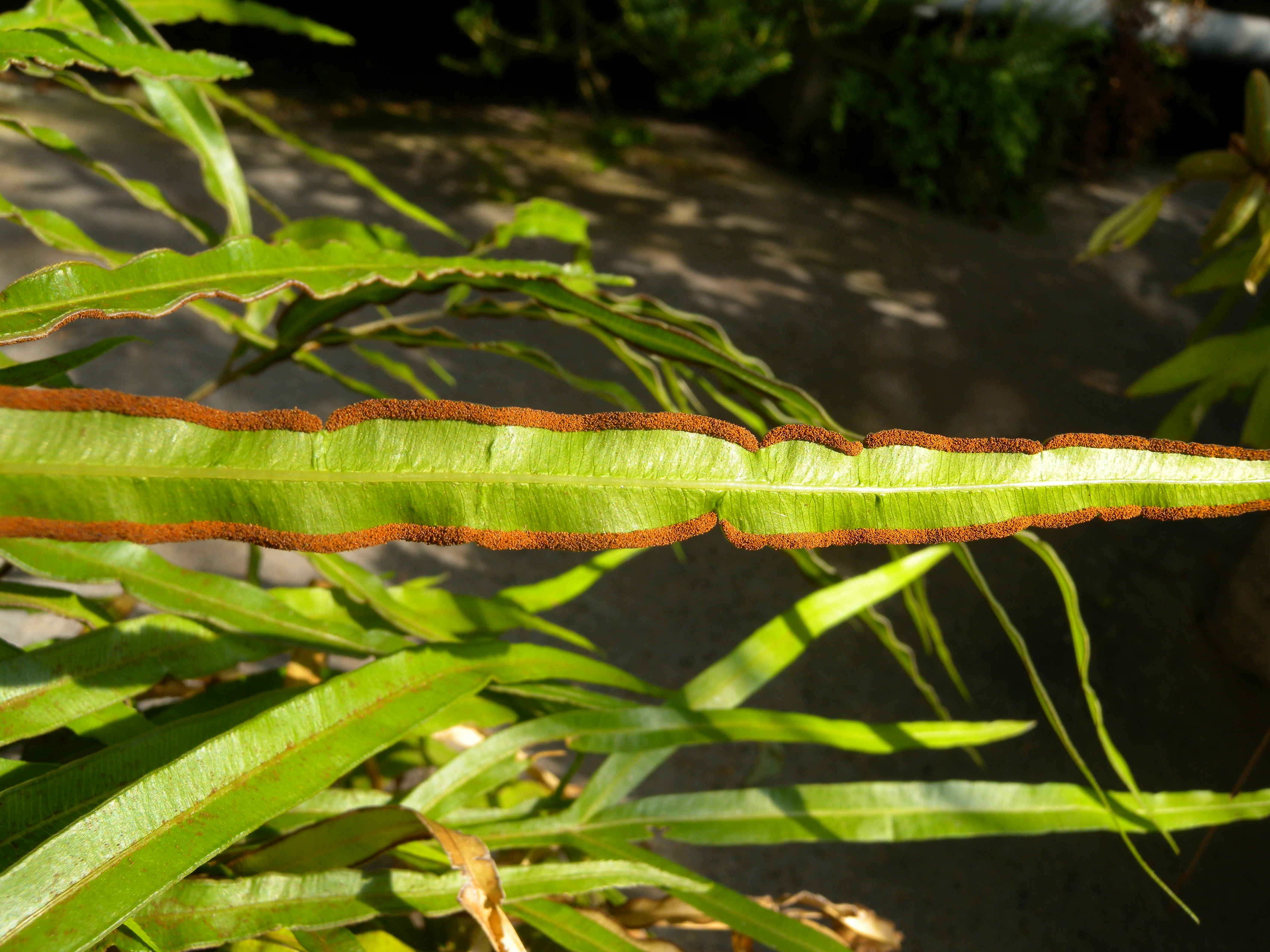 Pteris cretica (Pteridaceae), Botanical Garden Bern, Switzerland